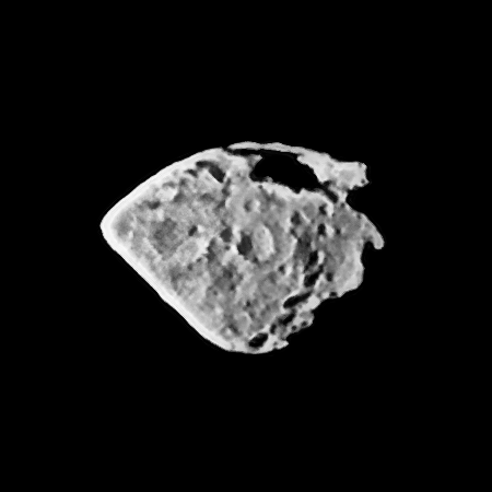 Asteroid 2867 Šteins was first imaged by ESA's Rosetta spacecraft using the OSIRIS camera on 5 September 2008. Image stacking and processing by amateur astrophotographer Ted Stryk has enhanced the shadows in order to emphasise the difference between bright crater rims and their shadowed floors. However, this technique can also create some artifacts, such as the illusion of boulders protruding from the surface, that are not present in the raw data. In total, over 40 craters have been identified on the surface of Steins, the largest appearing at the ‘top’ of this frame being the 2 km-wide crater named Diamond. Craters on Steins are named after gems, following Stein’s appearance as a diamond shape.